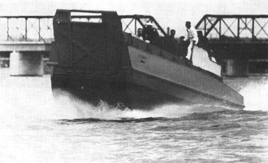 An experimental U.S. Navy LCVP(K) hydrokeel landing craft on the Potomac River (USA) during a test demonstration. It could exceed 30 knots.